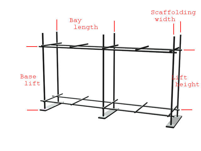 scaffolding